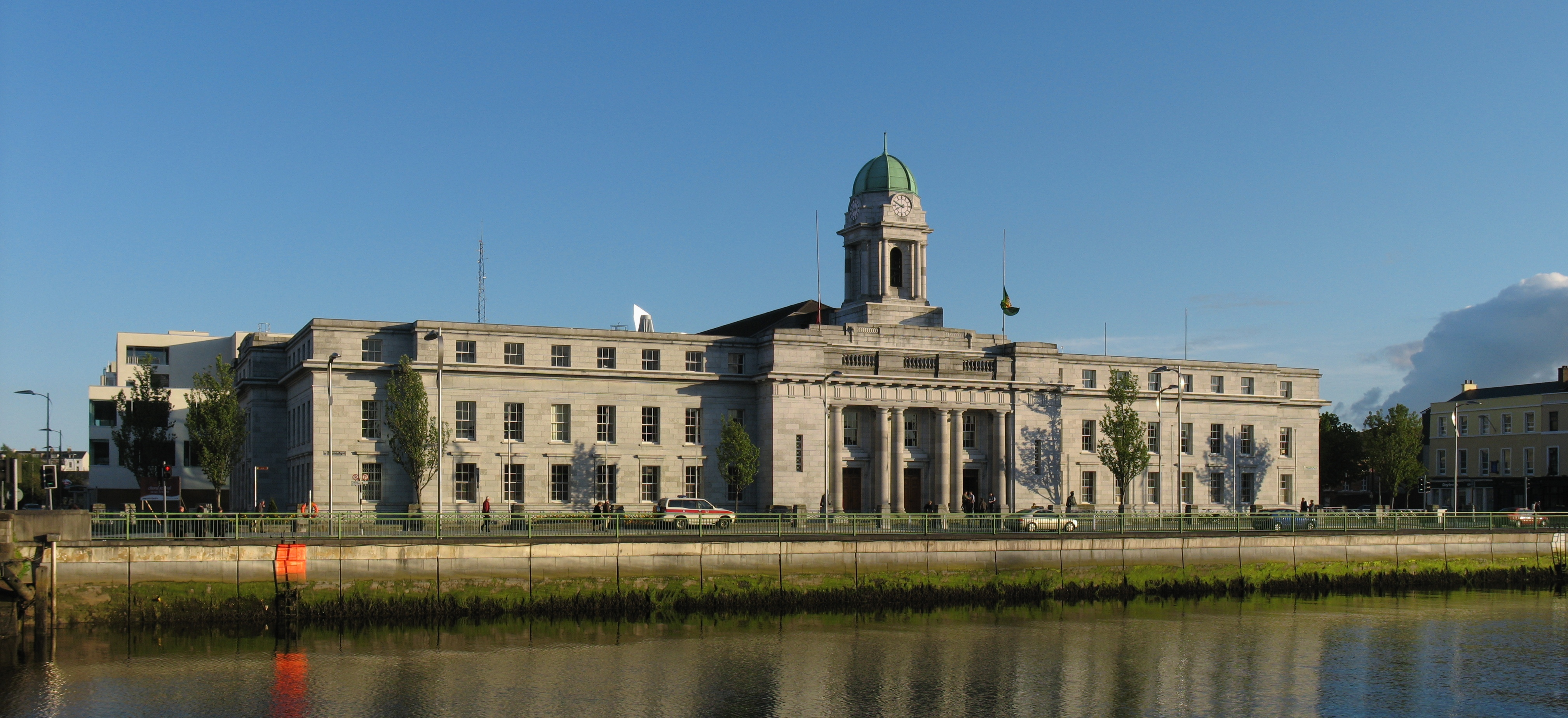 Cork City Hall. Panoramic stitch from two images.